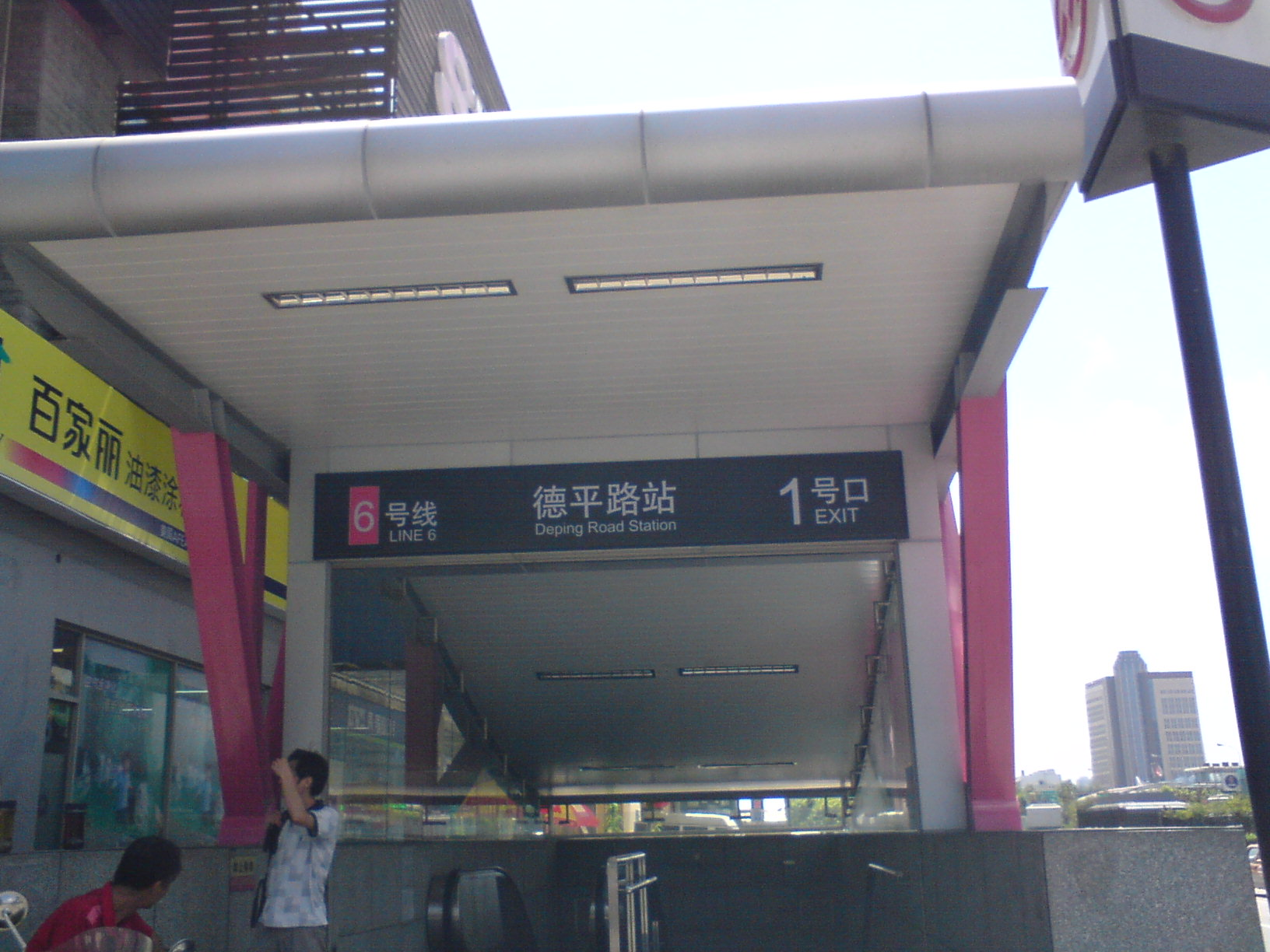 Exit 1 of Deping Road Station (Shanghai Metro)